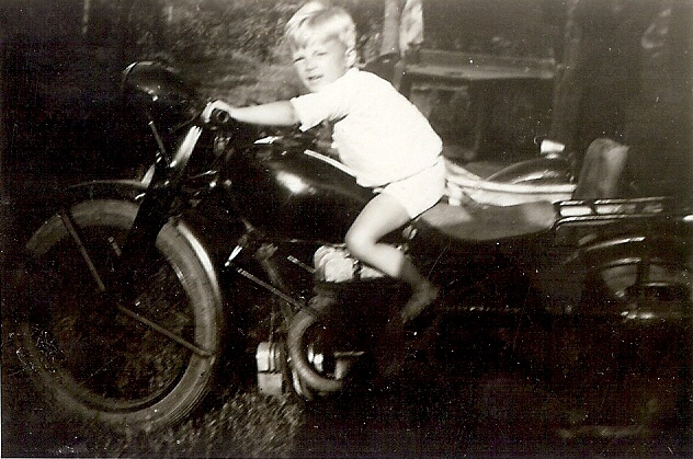 Endre Kukorelly was child with motorcycle. The little "Bandi".